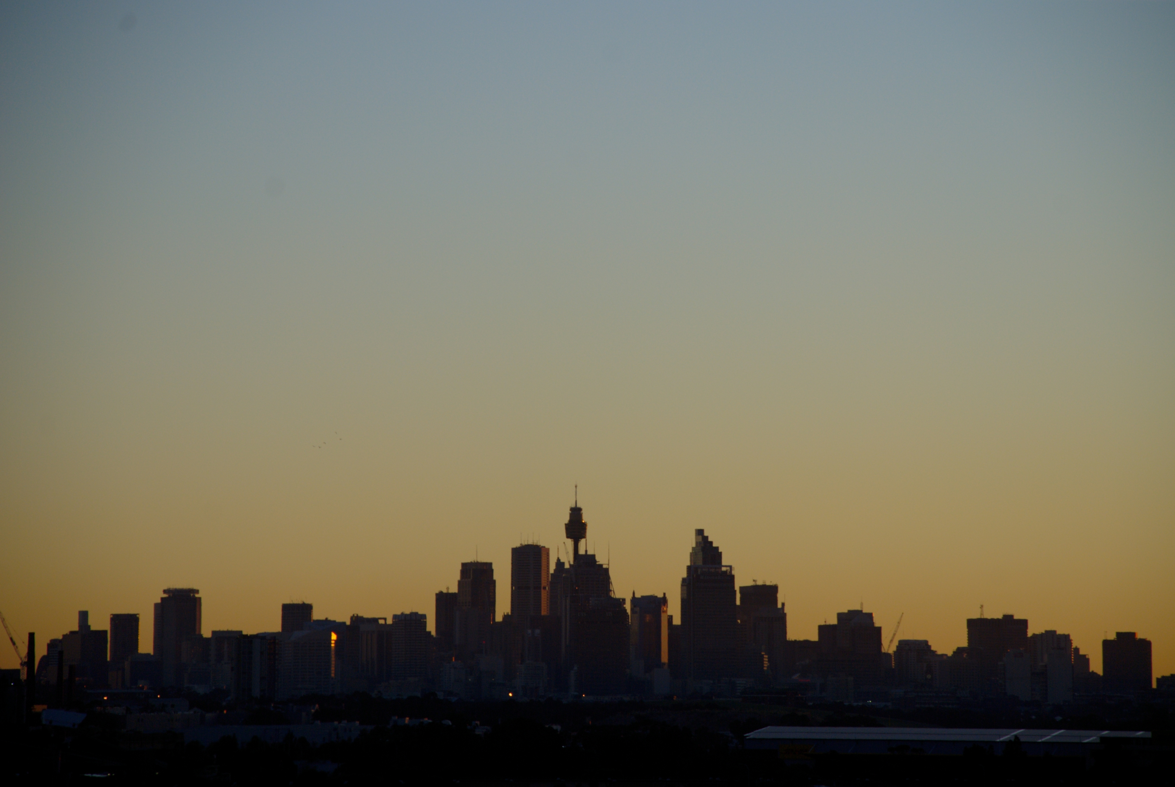 Sydney skyline at dawn, from the international terminal at the airport